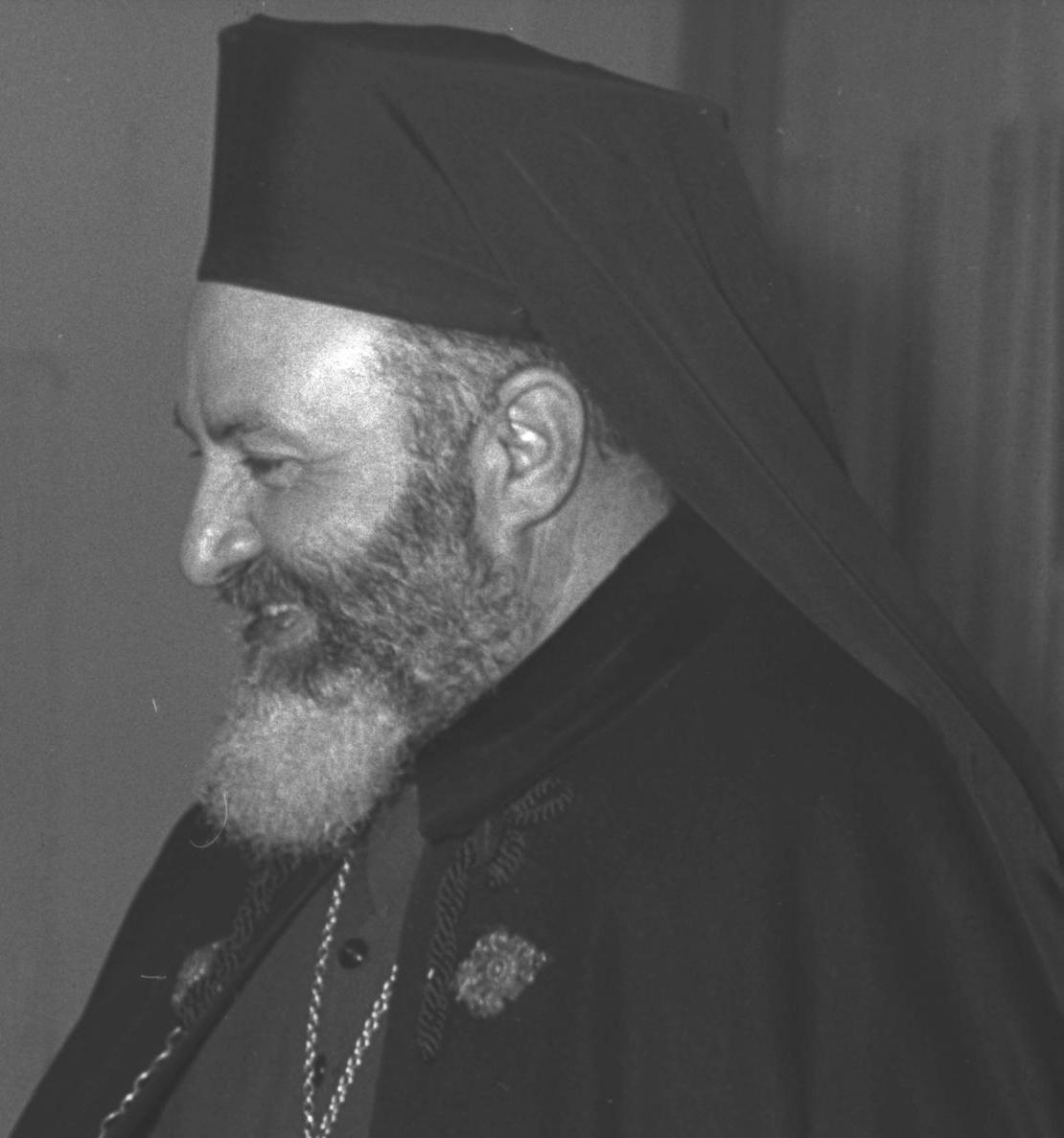 PRIME MINISTER DAVID BEN GURION (L) MEETING THE GREEK CATHOLIC ARCHBISHOP OF THE GALILEE GEORGE HAKIM, AT THE PRIME MINISTER'S OFFICE IN JERUSALEM